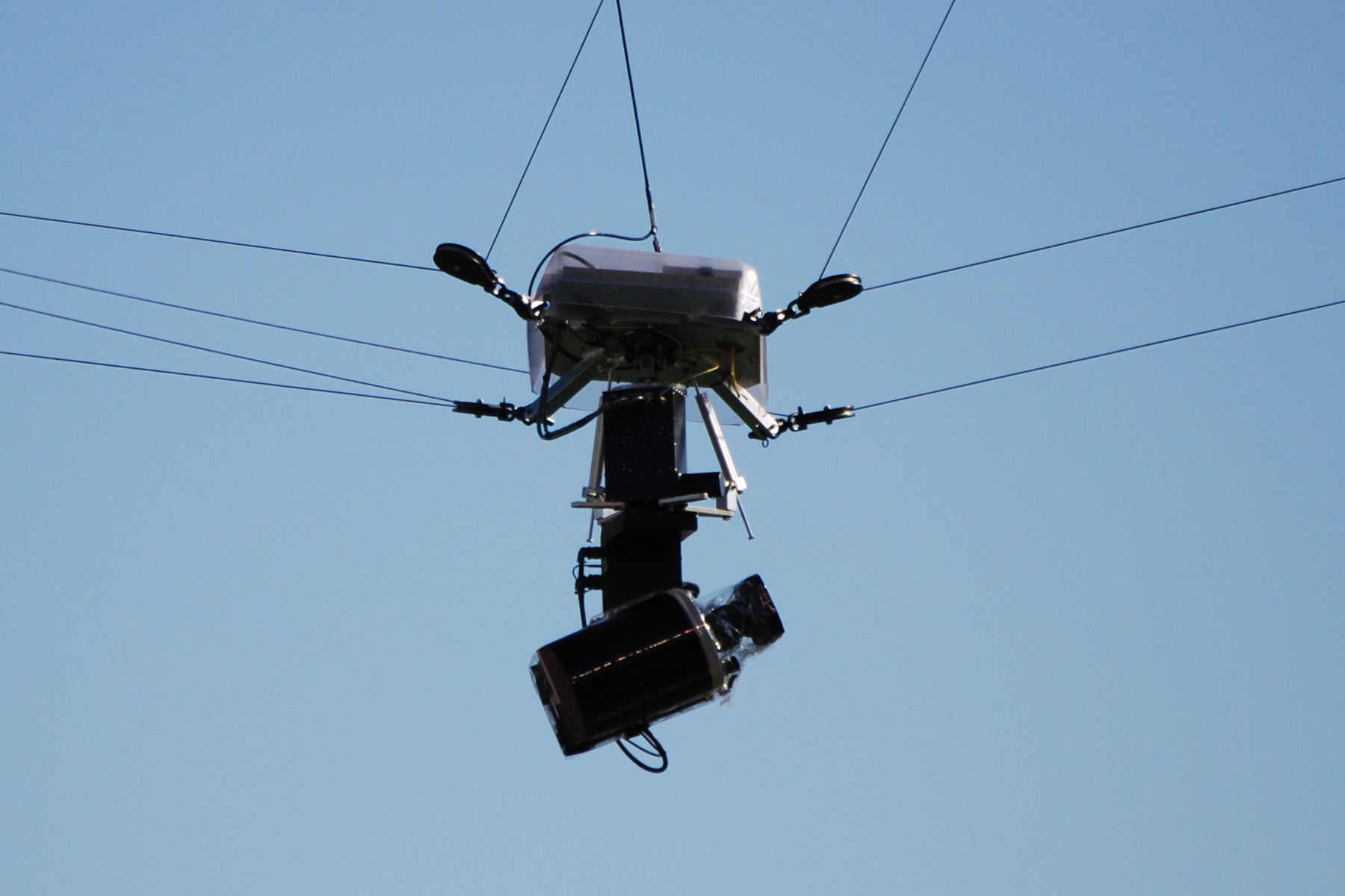 DLP cable camera used at the 2007 Cotton Bowl as part of the coverage by Fox Sports